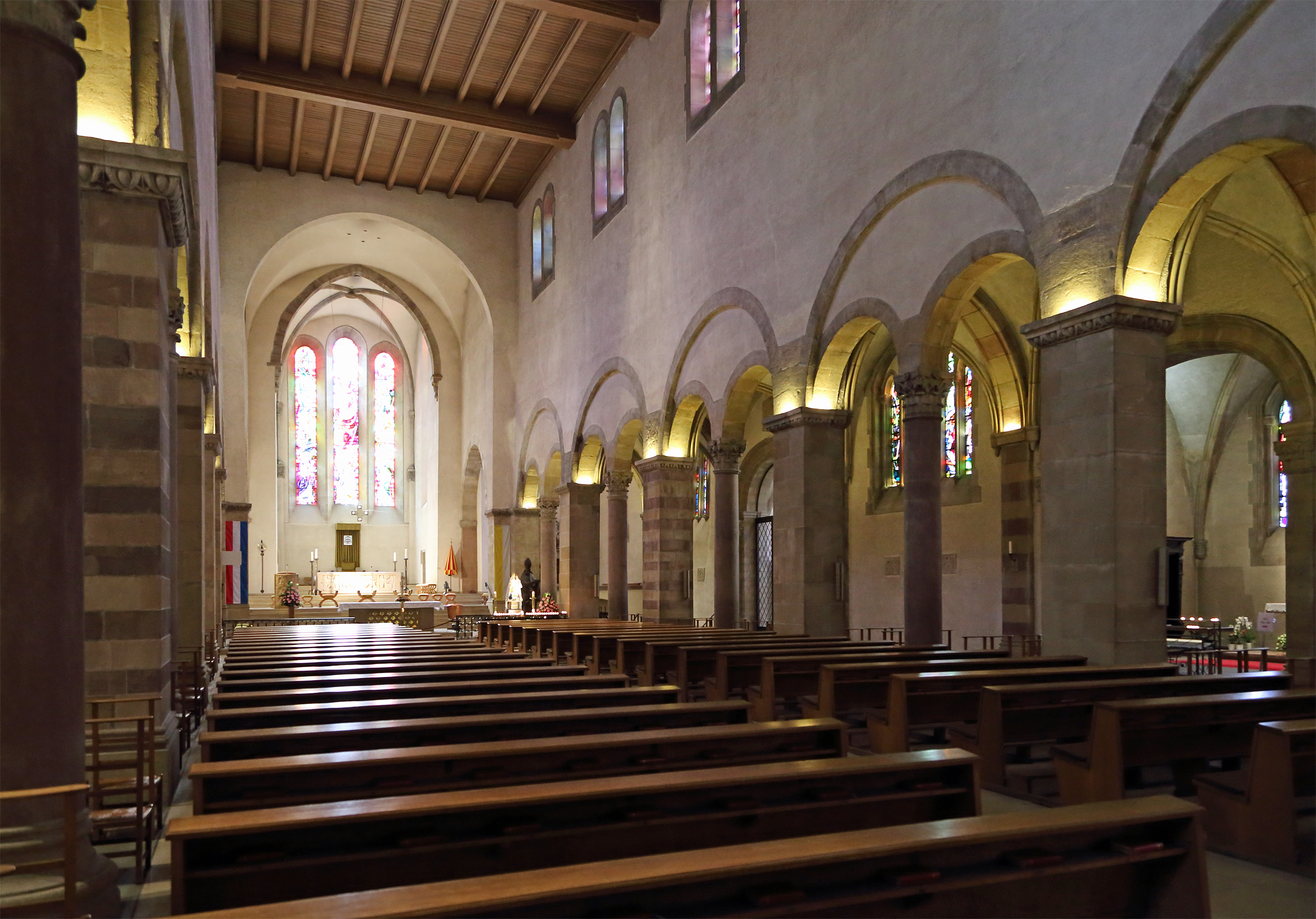 Echternach (Grand Duchy of Luxembourg): interior of St Willibrord basilica